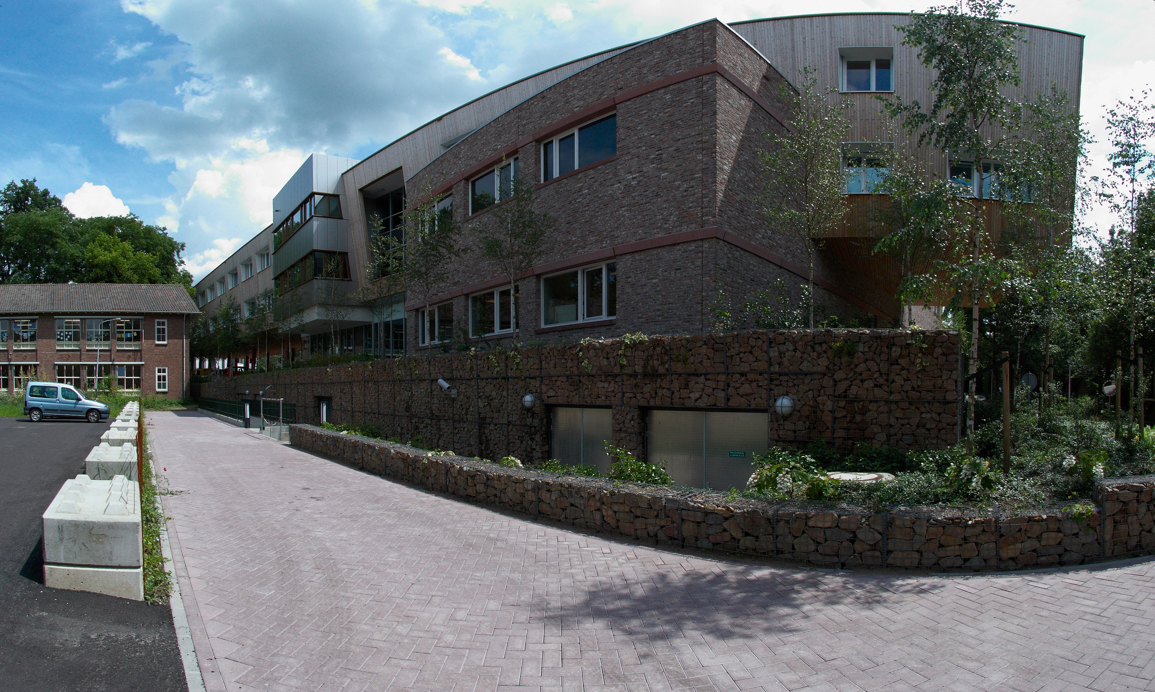 Triodos Bank in Zeist, the Netherlands